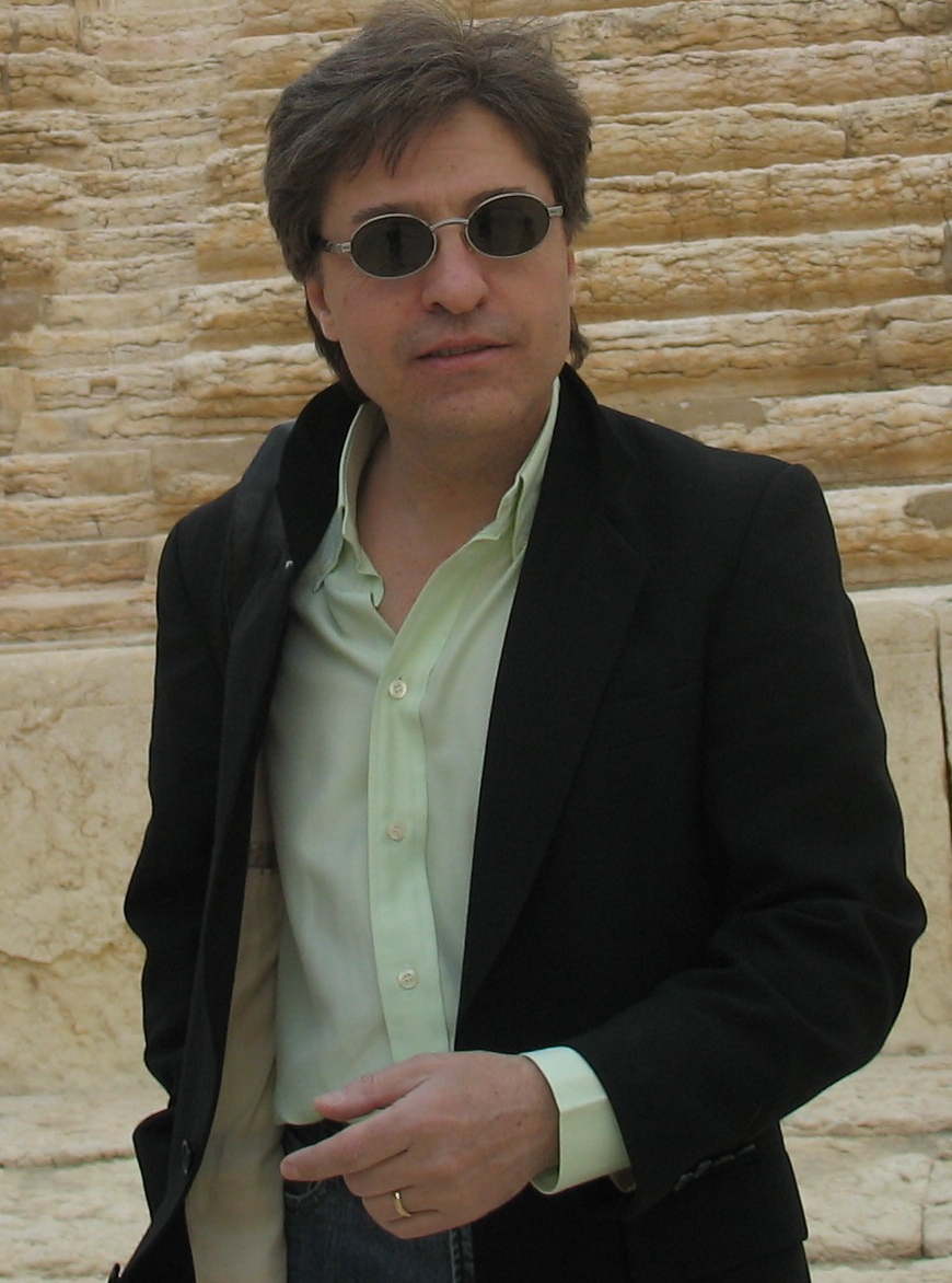 Director Ziad Hamzeh